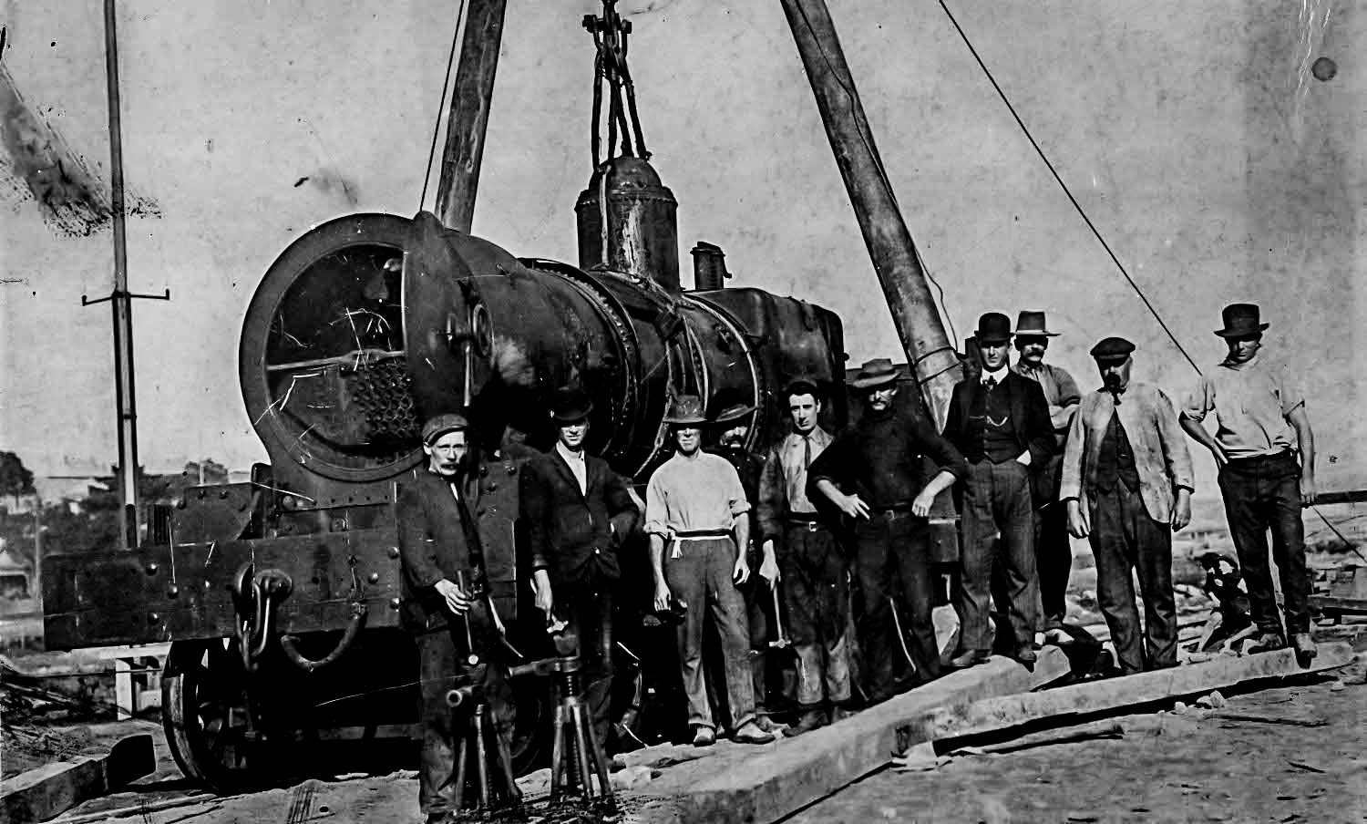 NSWGR Z13 Class Locomotive being assembled at Glebe Island